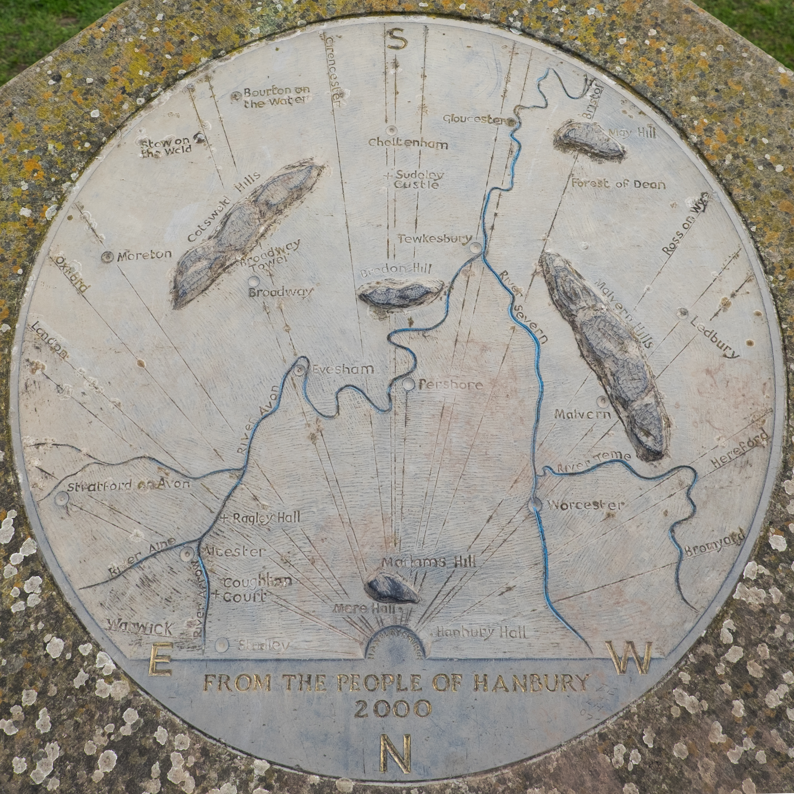 The plate on top of the toposcope in the churchyard of St Mary the Virgin, Hanbury, Worcestershire